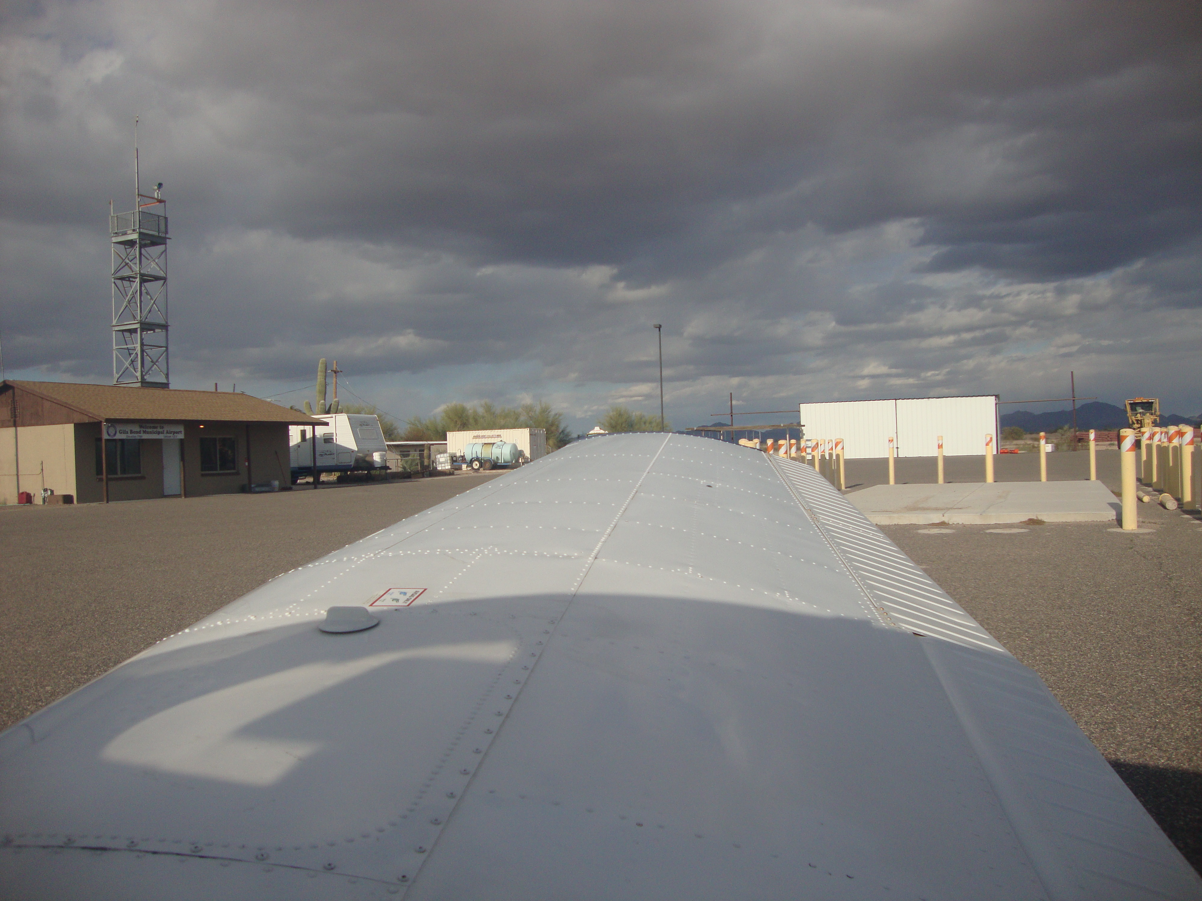 Gila Bend ramp